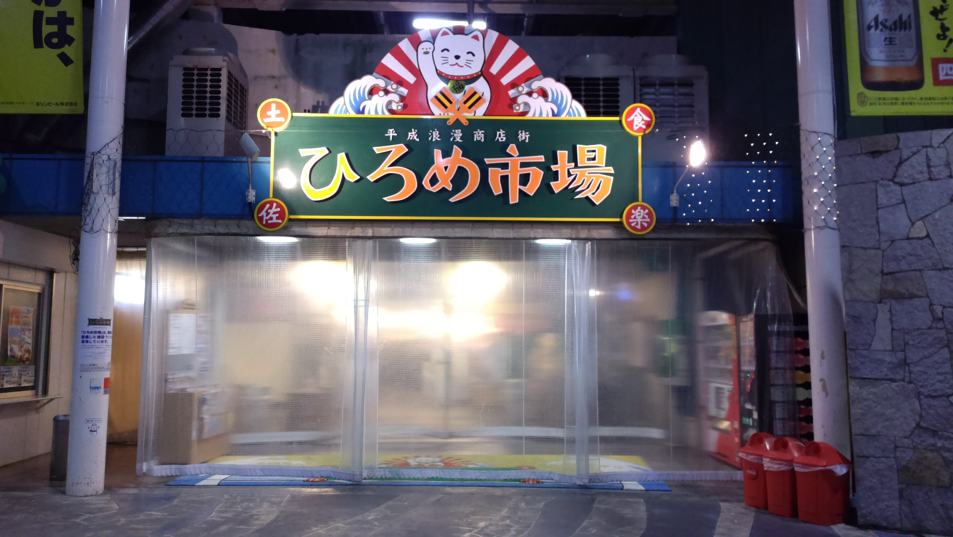 Hirome Market Entrance